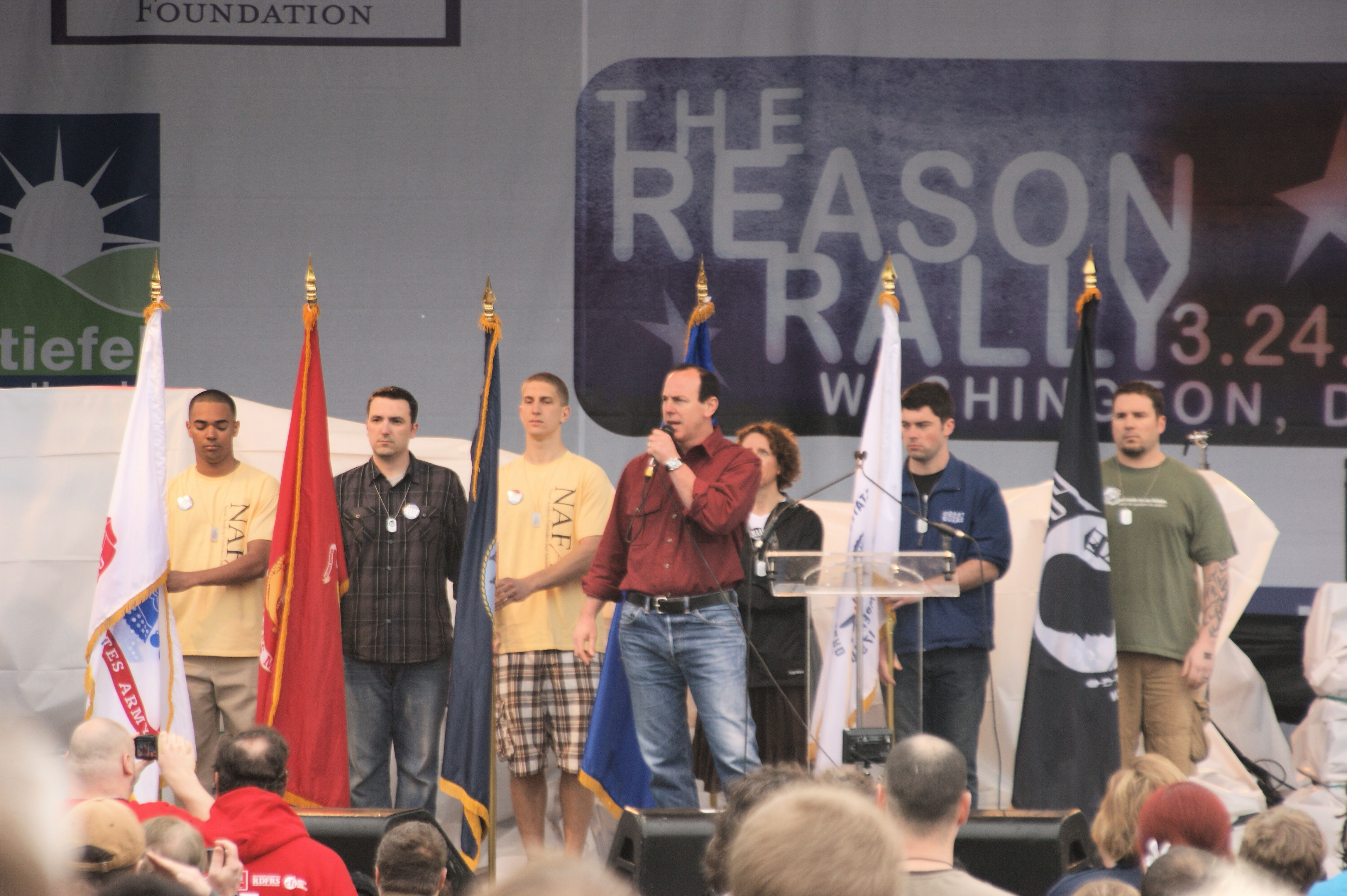 Greg Graffin of Bad Religion sings the National Anthem in front of a color guard from the Military Association of Atheists and Freethinkers (MAAF), at the Reason Rally. National Mall, Washington, DC, March 24, 2012.